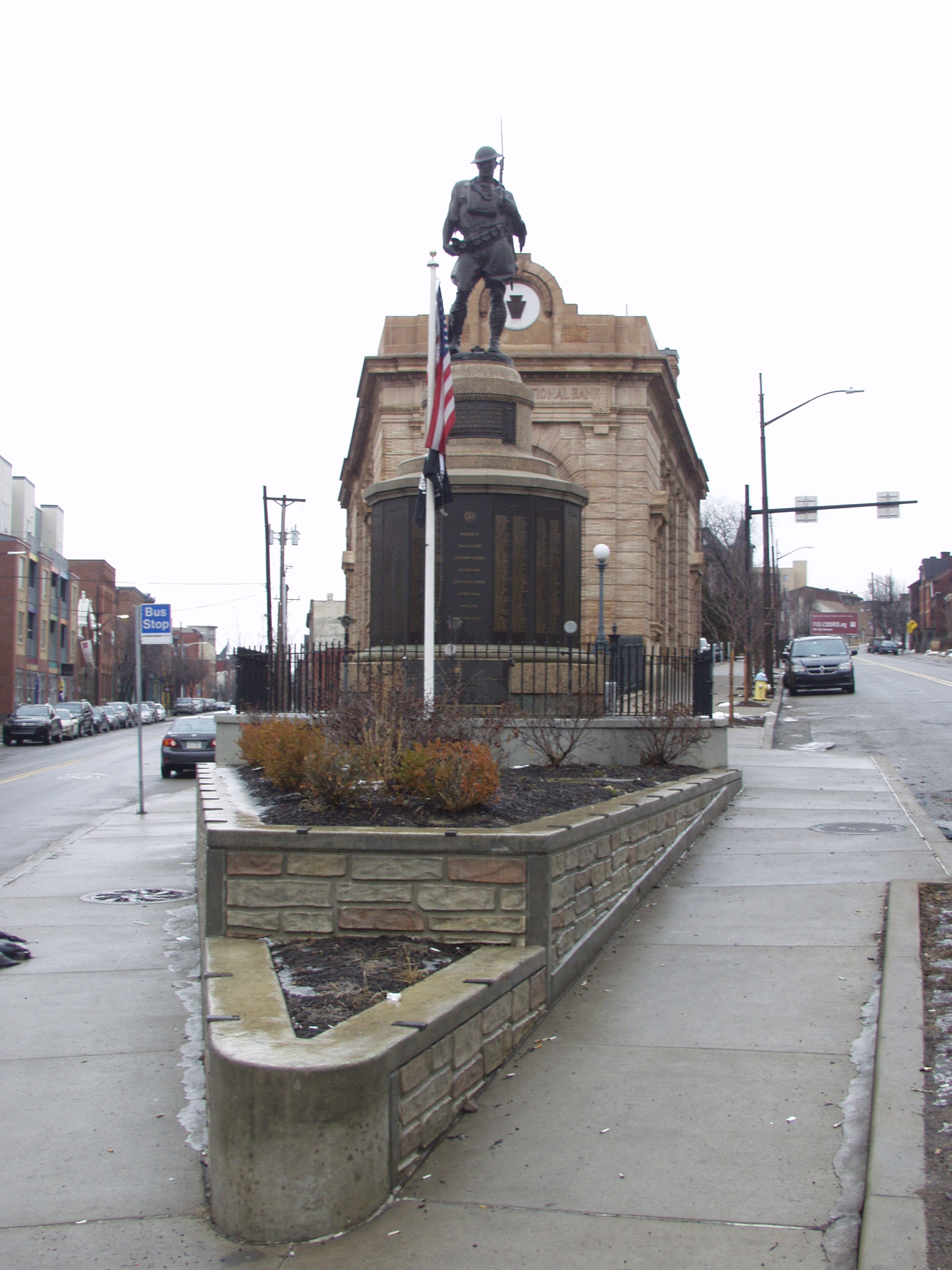 World War I memorial at Doughboy Square, Lawrenceville, Pittsburgh